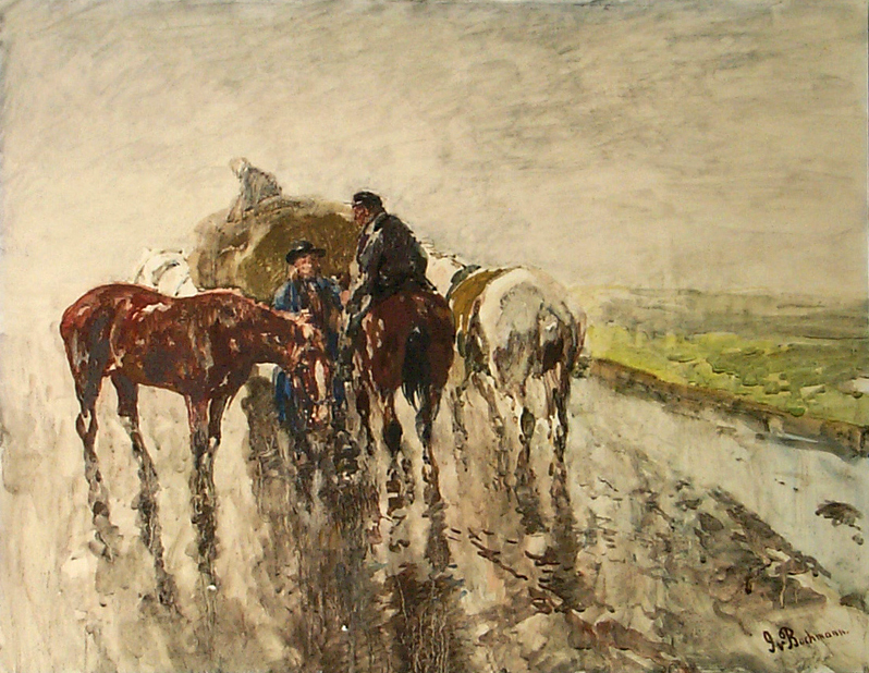 This is a watercolour by the baltic-german painter Gregor von Bochmann (1850 - 1930). It is entitled "Ein Regentag" (a rainy day). It is number B0169 in the work catalog. The photograph was taken in 1999. The painting belongs to the Museum for Foreign Art (AMM Gr-6688), Riga, Letland. The painting was aquired in 1913 and was painted for the museum. It represents the landscape of Estonia.